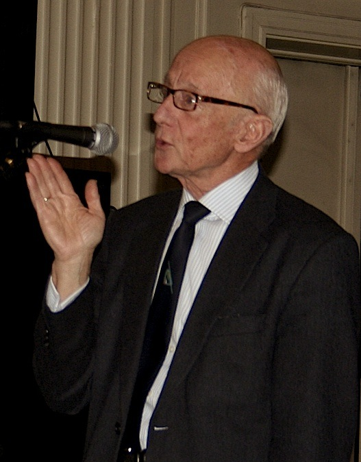 Kåre Willoch. © Photo by Robert E. Haraldsen, taken on December 16th 2006 during a speech in Stabekk Culture House, Norway.